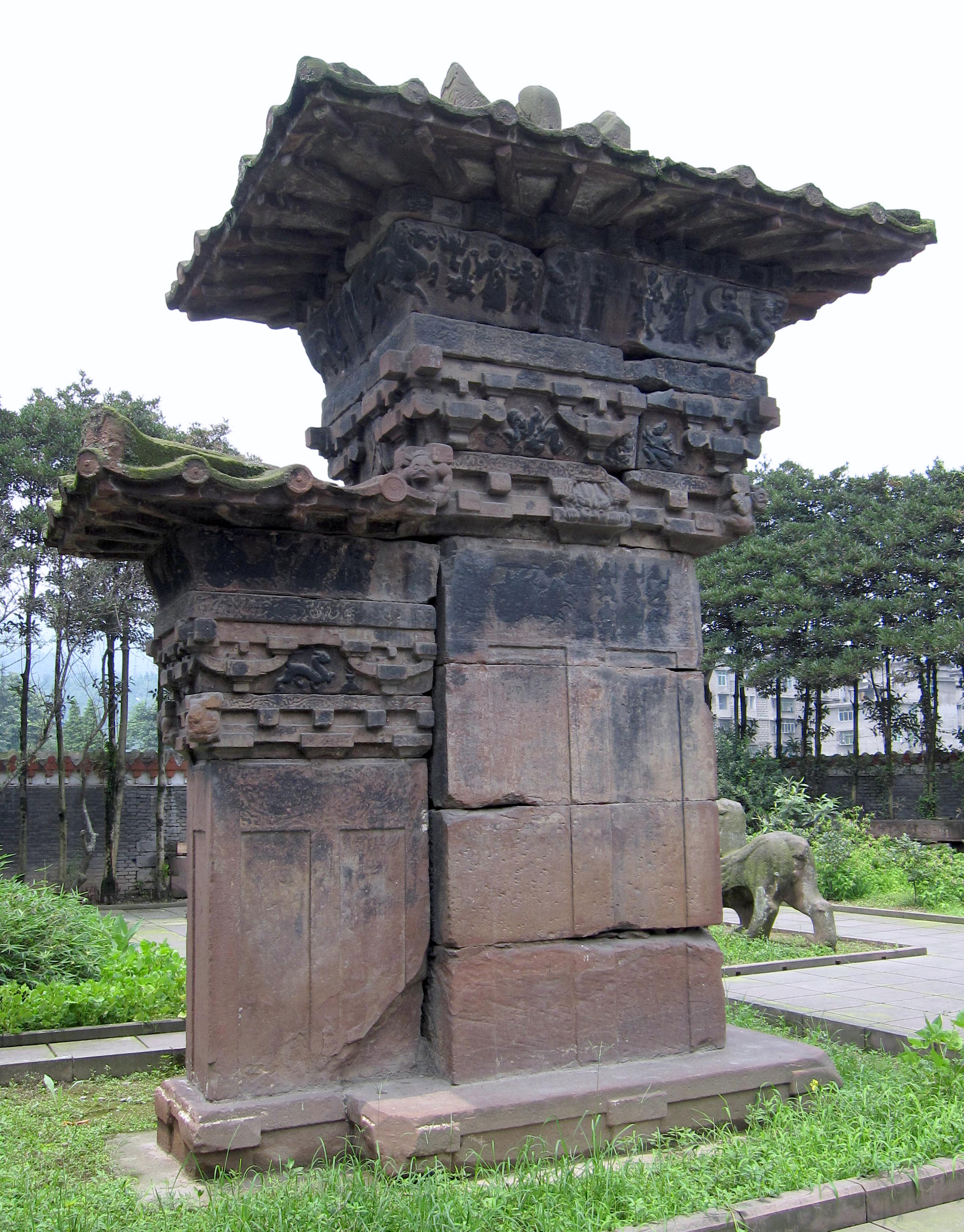 The Gaoyi Que, a stone-carved pillar-gate (que, 闕), 6 m (20 ft) in height, located at the tomb of Gao Yi in Ya'an, Sichuan, China, from the Eastern Han Dynasty (25-220 AD).